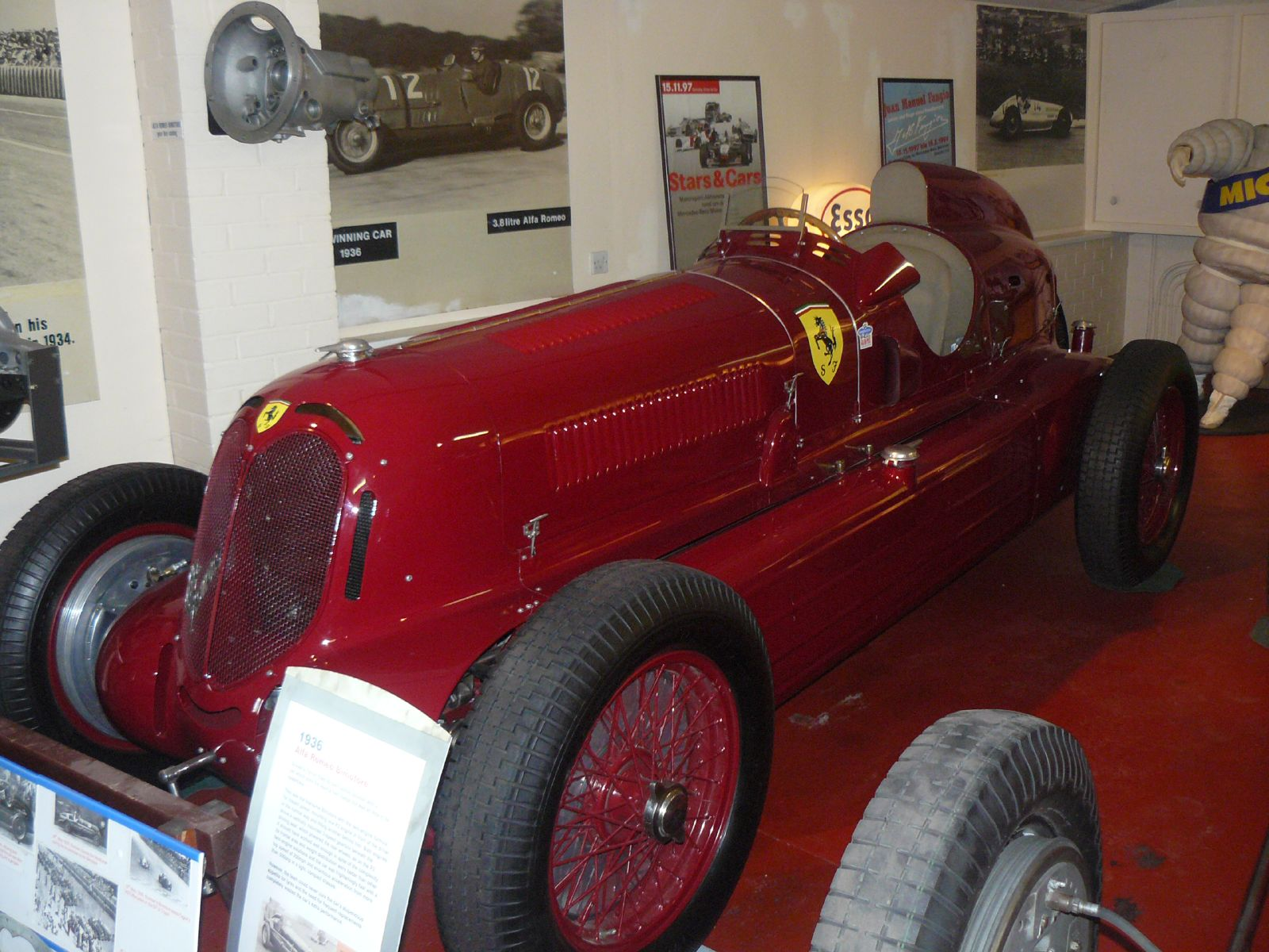 1936 Alfa Romeo Bimotore, Scuderia Ferrari ran this car, but the essentials were all Alfa Romeo. The twin-motor setup had an engine to the front and to the rear of the driver, feeding a central gearbox, producing 500bhp and a top speed of 200mph in a light chassis. However, the power was too much for the tyres of the time to cope with, wasting the engines performance